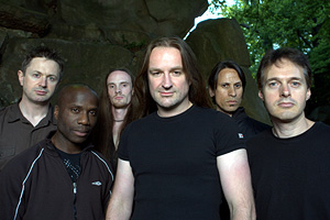 British rock band Threshold taken by Julian Small